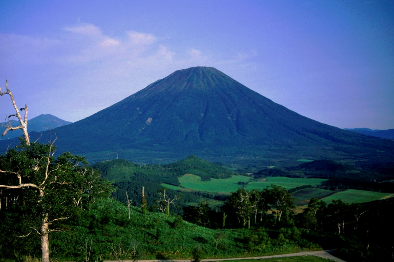 Mount Yōtei from Mount Shiribetsu